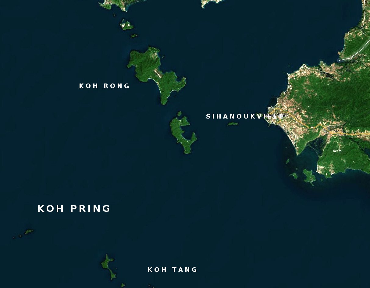 a map of the eastern Gulf of Thailand with islands of Cambodia